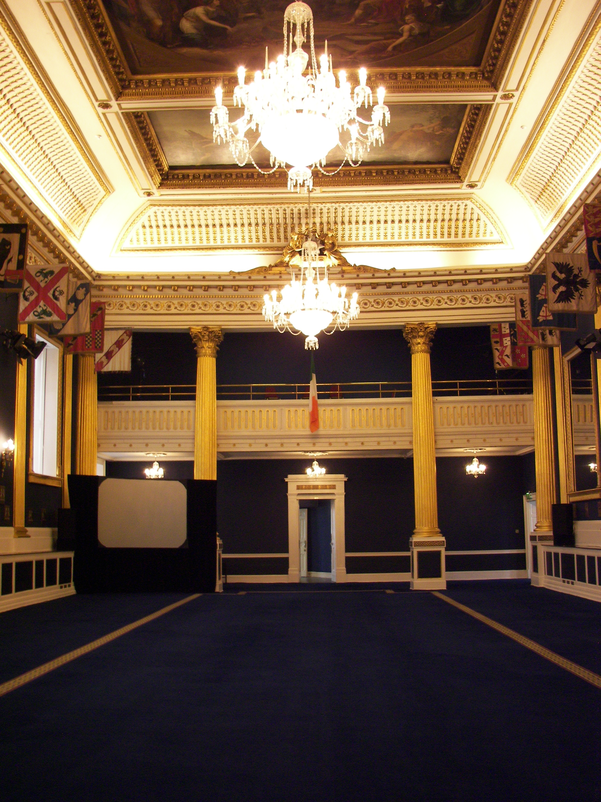 St. Patrick's Hall in the Dublin Castle State Apartments.